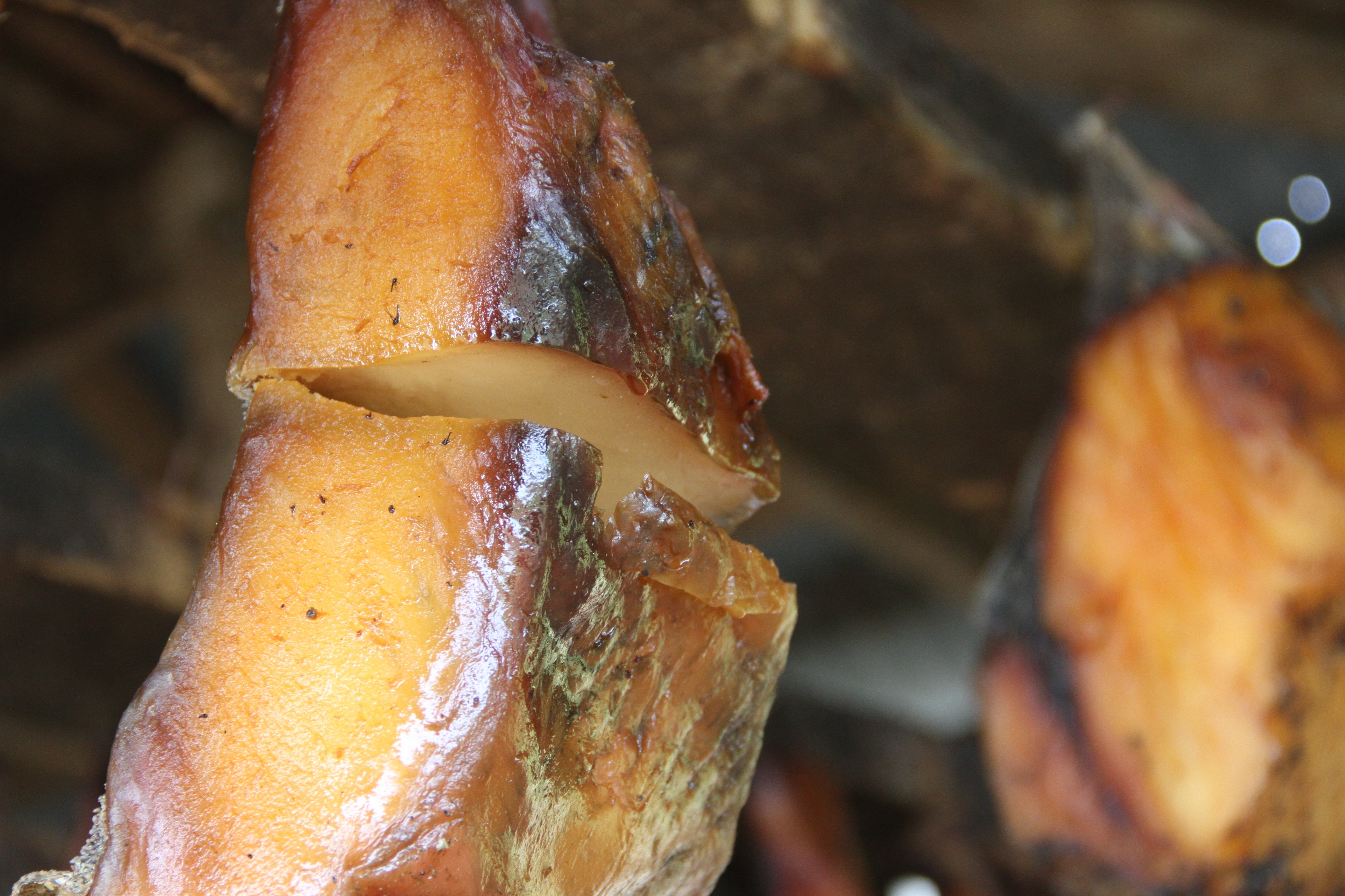 Hákarl produced at Bjarnahöfn.